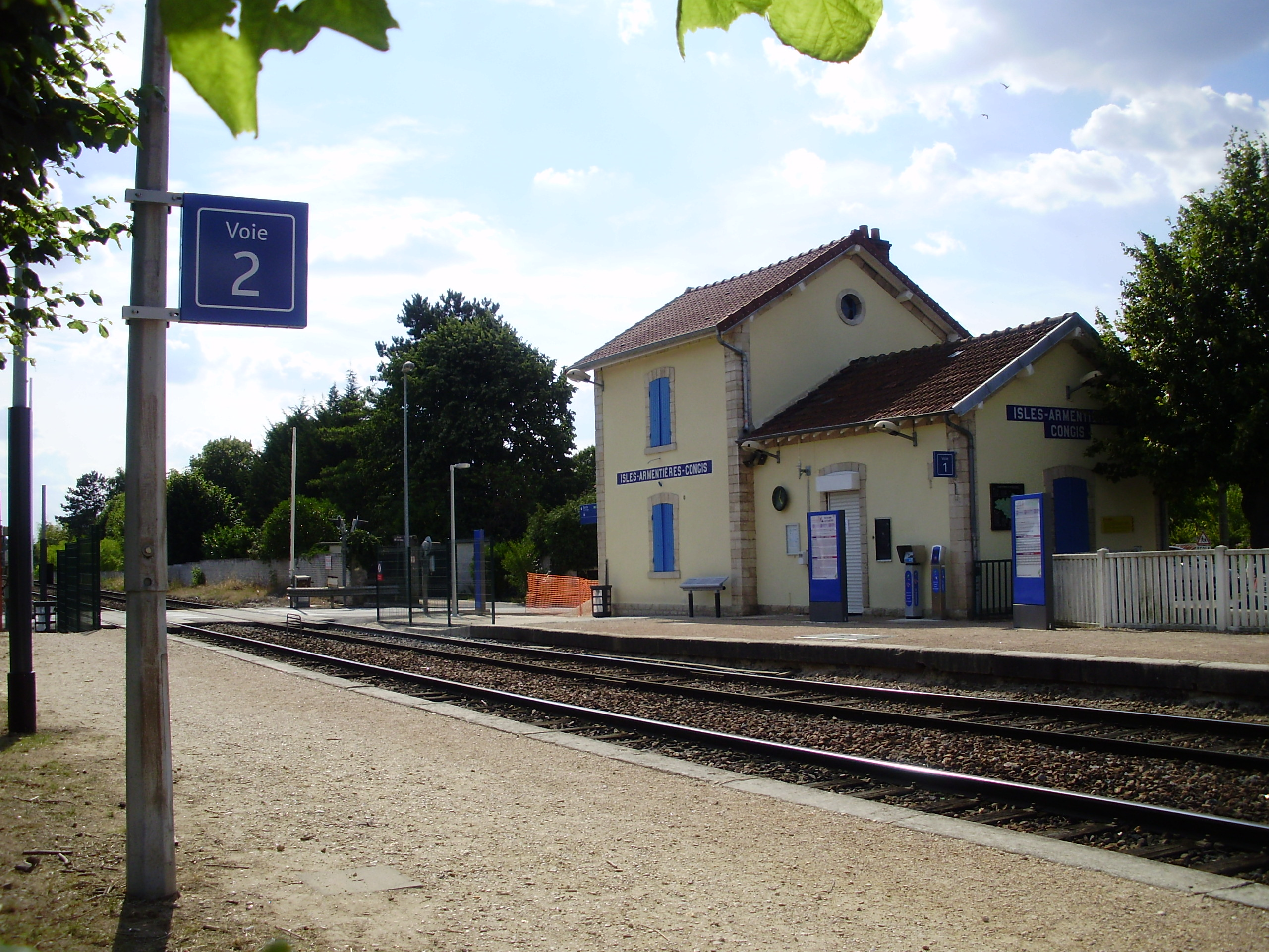 Isles - Armentières - Congis station, Seine-et-Marne, France, seen from the platform to Meaux